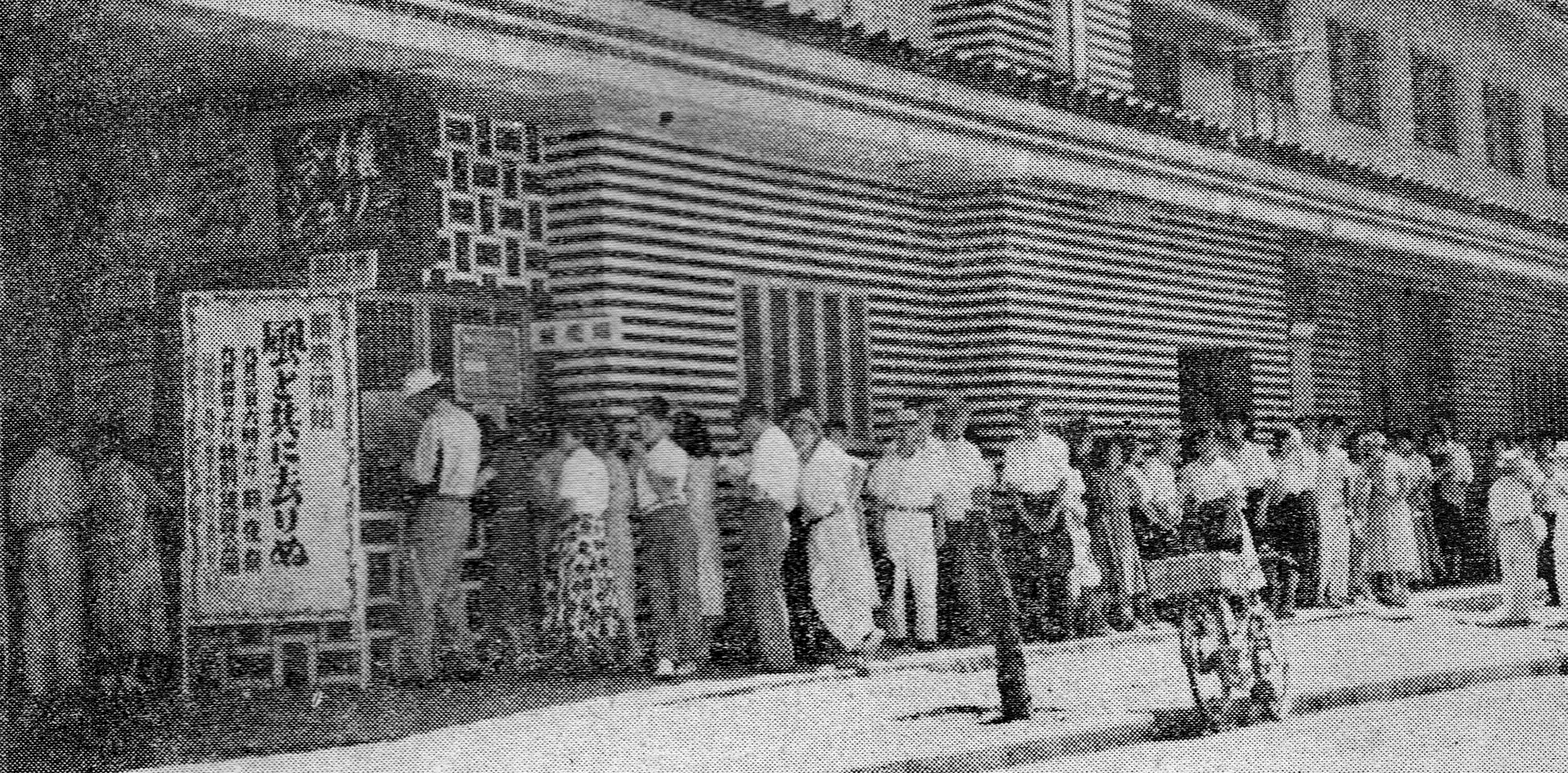 日本で『風と共に去りぬ』のチケットを買おうとしている人たち （A Long Line of people in Japan waiting to buy a ticket for the American film Gone With the Wind (1939).）